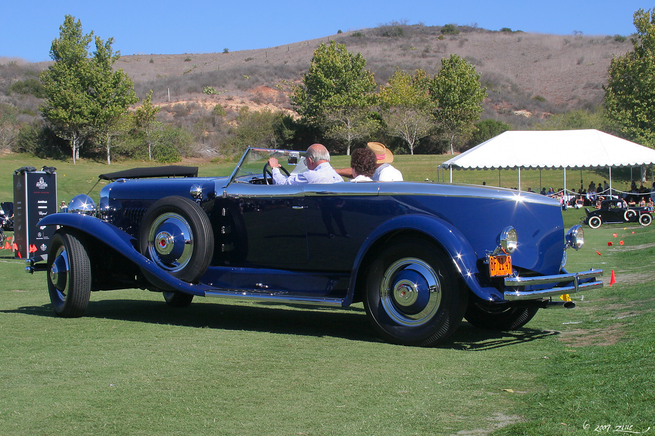 1930 Duesenberg J Murphy Disappearing Top Torpedo Convertible Coupe. At 1947 Delahaye 175 at Newport Beach, CA, Concours d'Elegance, Strawberry Farms.